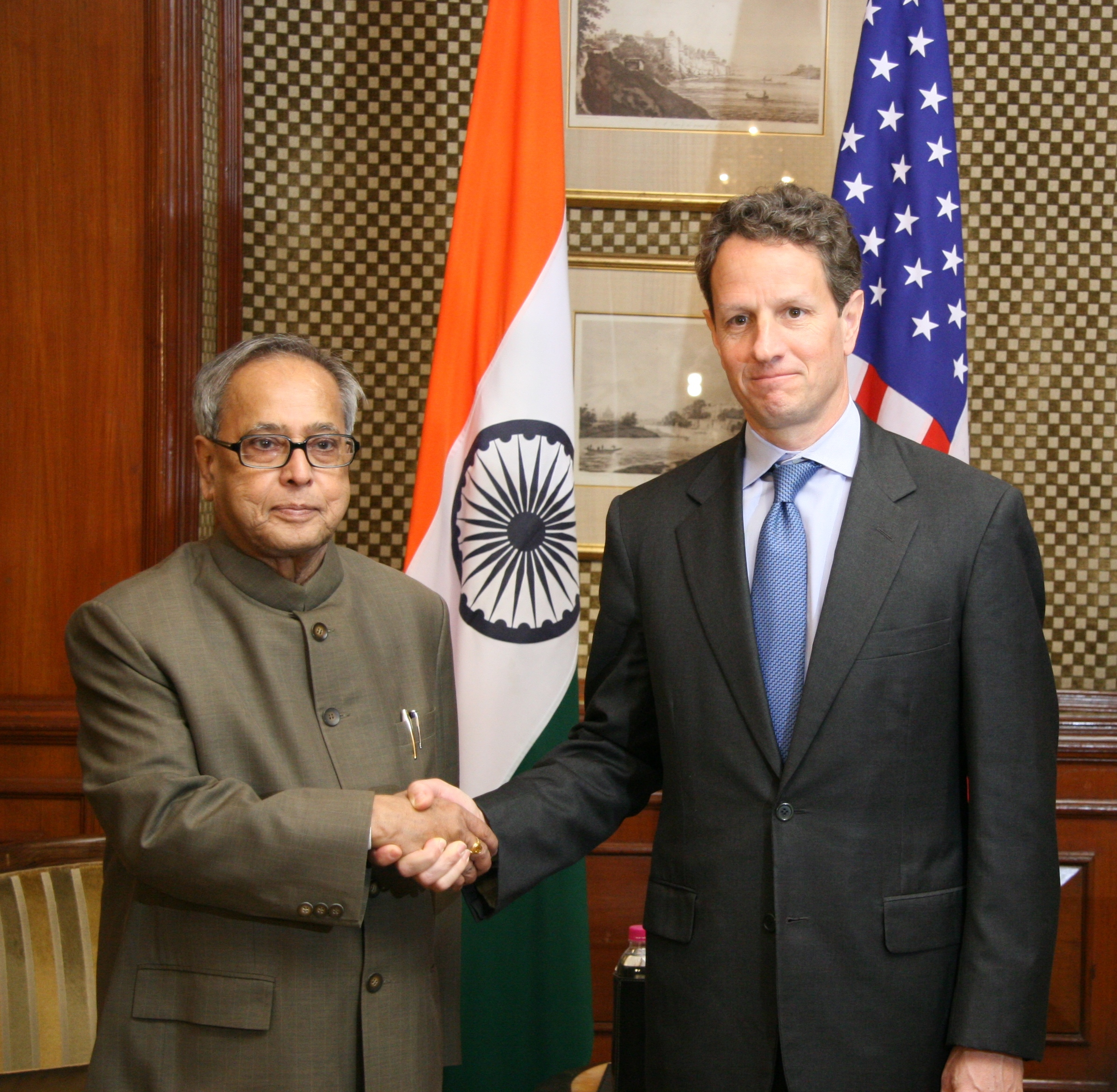 United States Secretary of the Treasury Timothy Geithner seen here with FInance Minister of India Pranab Mukherjee in New Delhi, India in 2010.